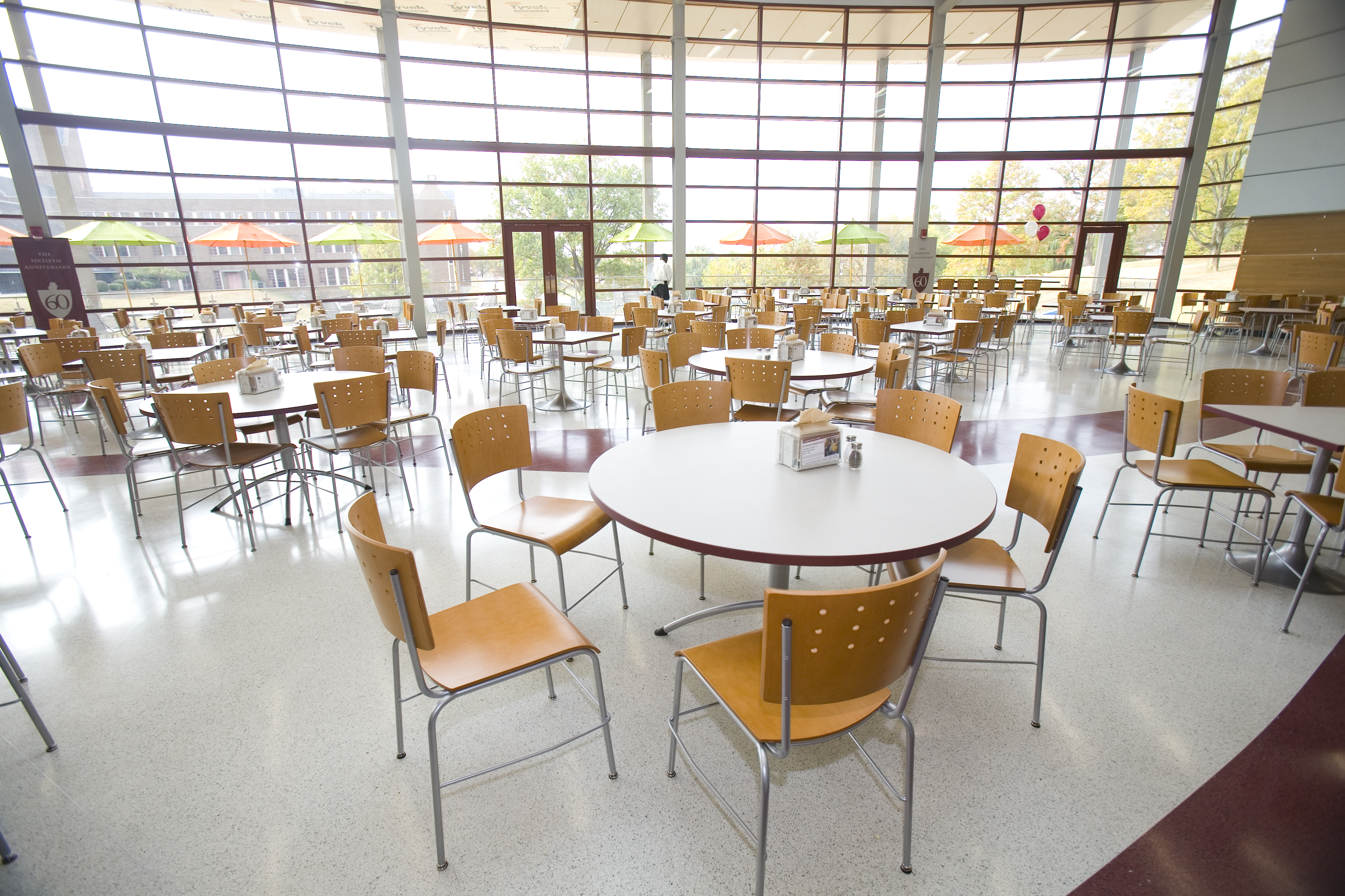 This is a picture I took of the inside of the new University Dining Hall.